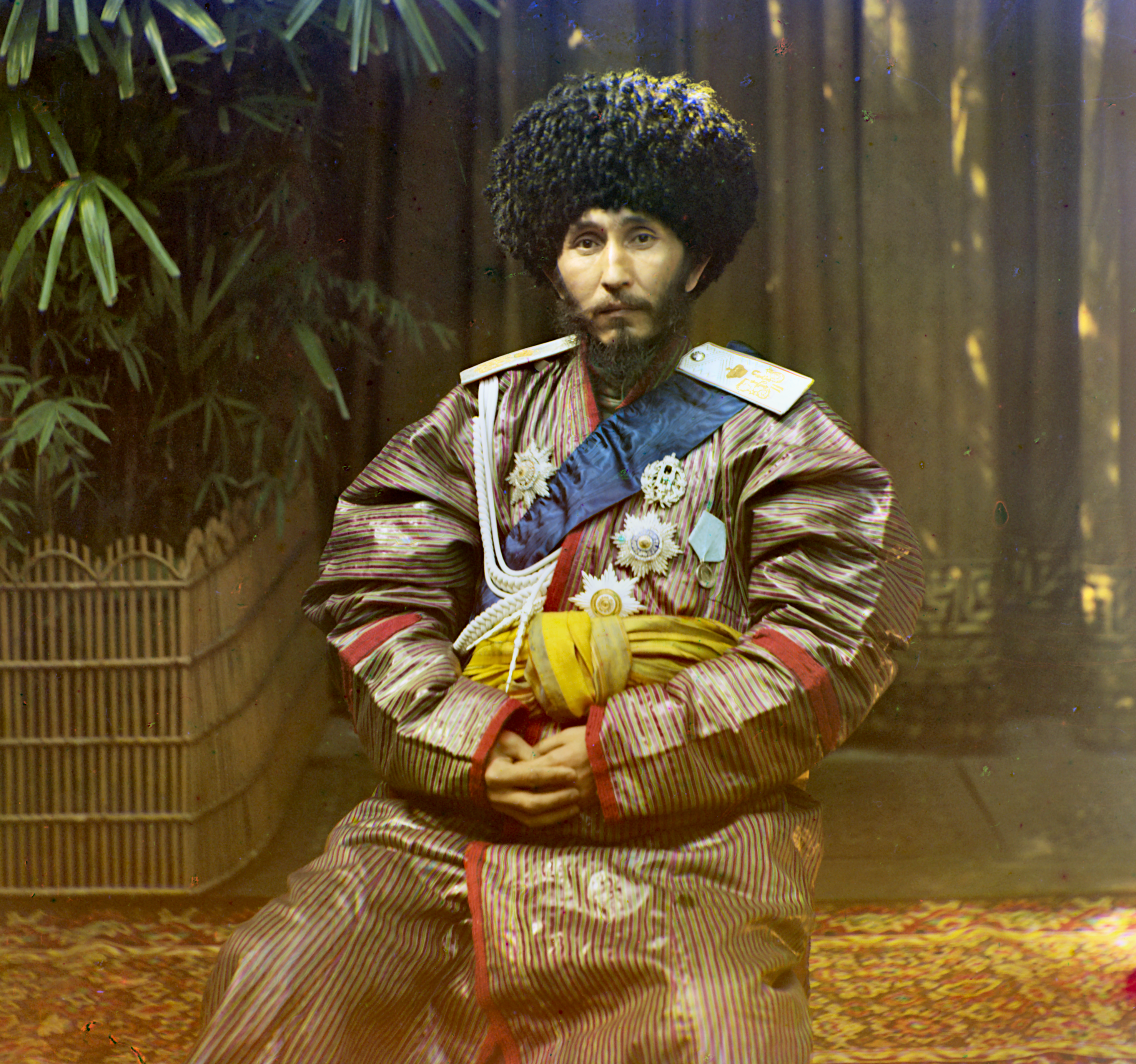 A picture of Isfandiyar Jurji Bahadur, Khan of Khanate of Khiva, taken circa 1911. This is one of the earliest color photographs in existence and was originally taken by Sergei Mikhailovich Prokudin-Gorskii as part of his work to document the Russian Empire. It was taken using three black-and-white exposures, with red, green and blue filters respectively, long before color photographic printing existed. The three resulting images were projected using color filters to create a color projection. More recently, the Library of Congress has scanned Prokudin-Gorskii's work and contracted with other firms to produce high-resolution color images from the black and white scans.